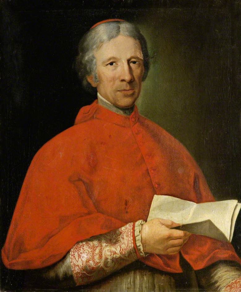 Kardinal Charles Erskine Earl of Kellie (1739-1811)